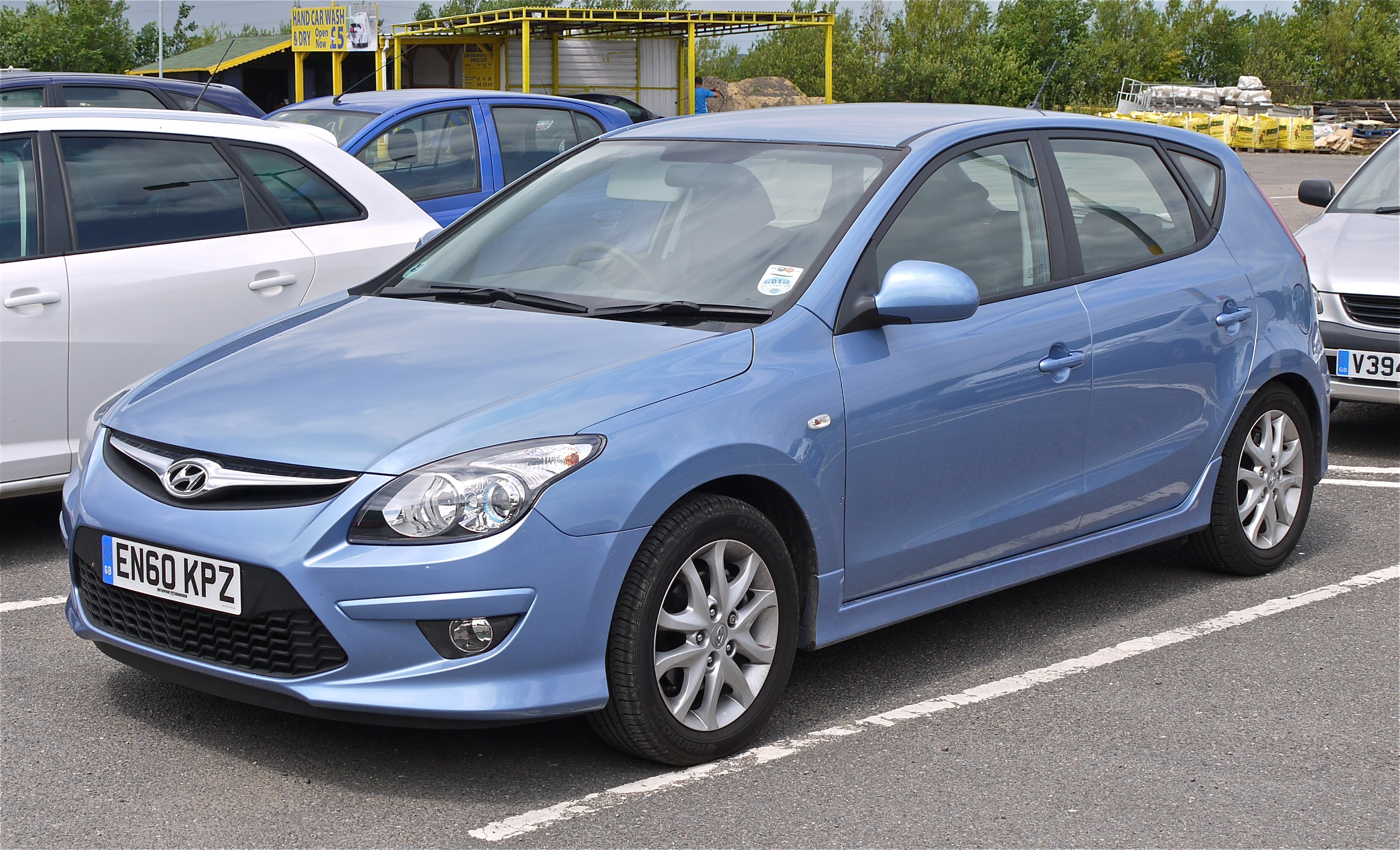 I think the i30 looks good in the Ice Blue paint finish. Panasonic G1 14-45 Lens iA mode